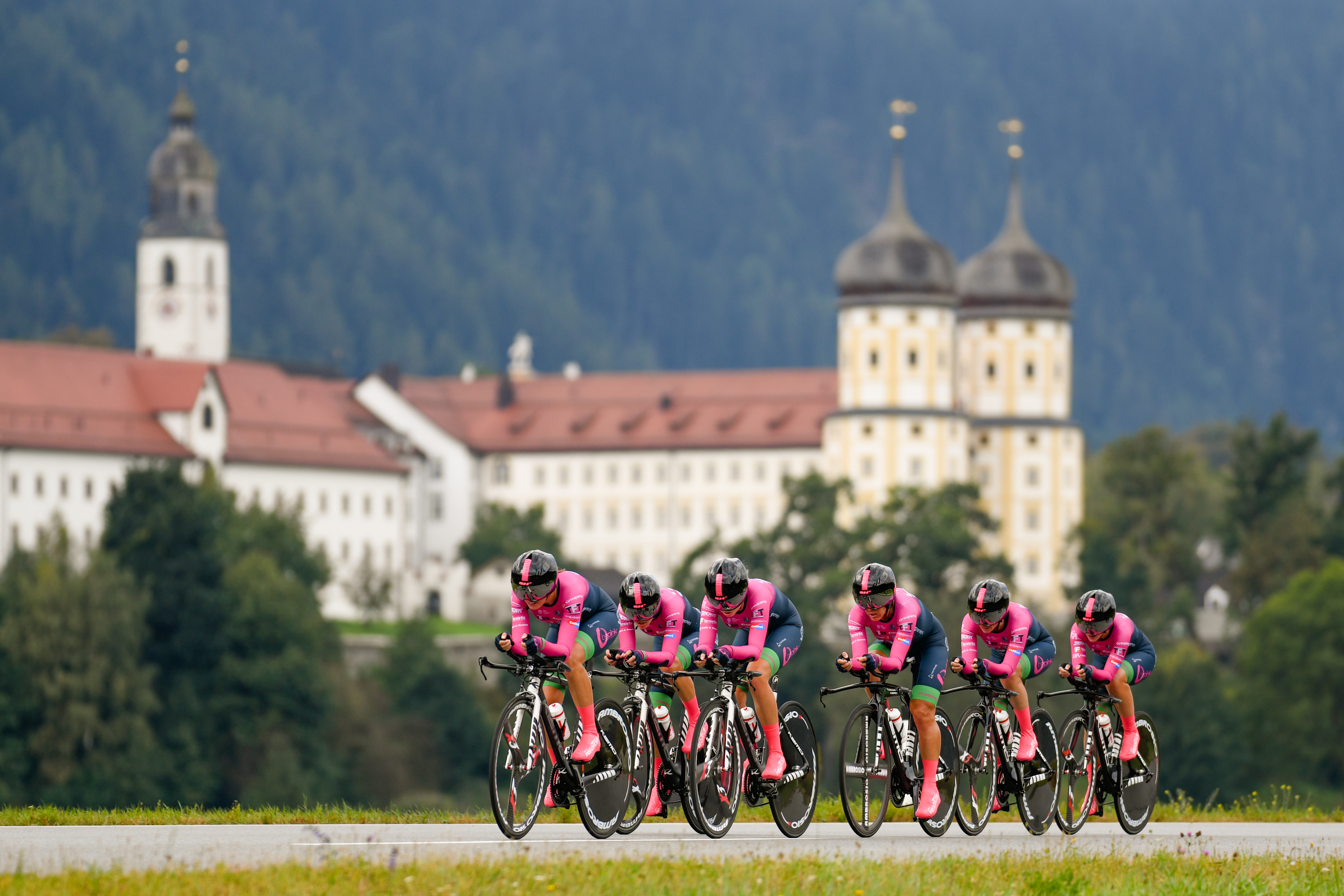 2018 UCI Road World Championships Innsbruck/Tirol Women's Team Time Trial. Picture shows: Team bepink